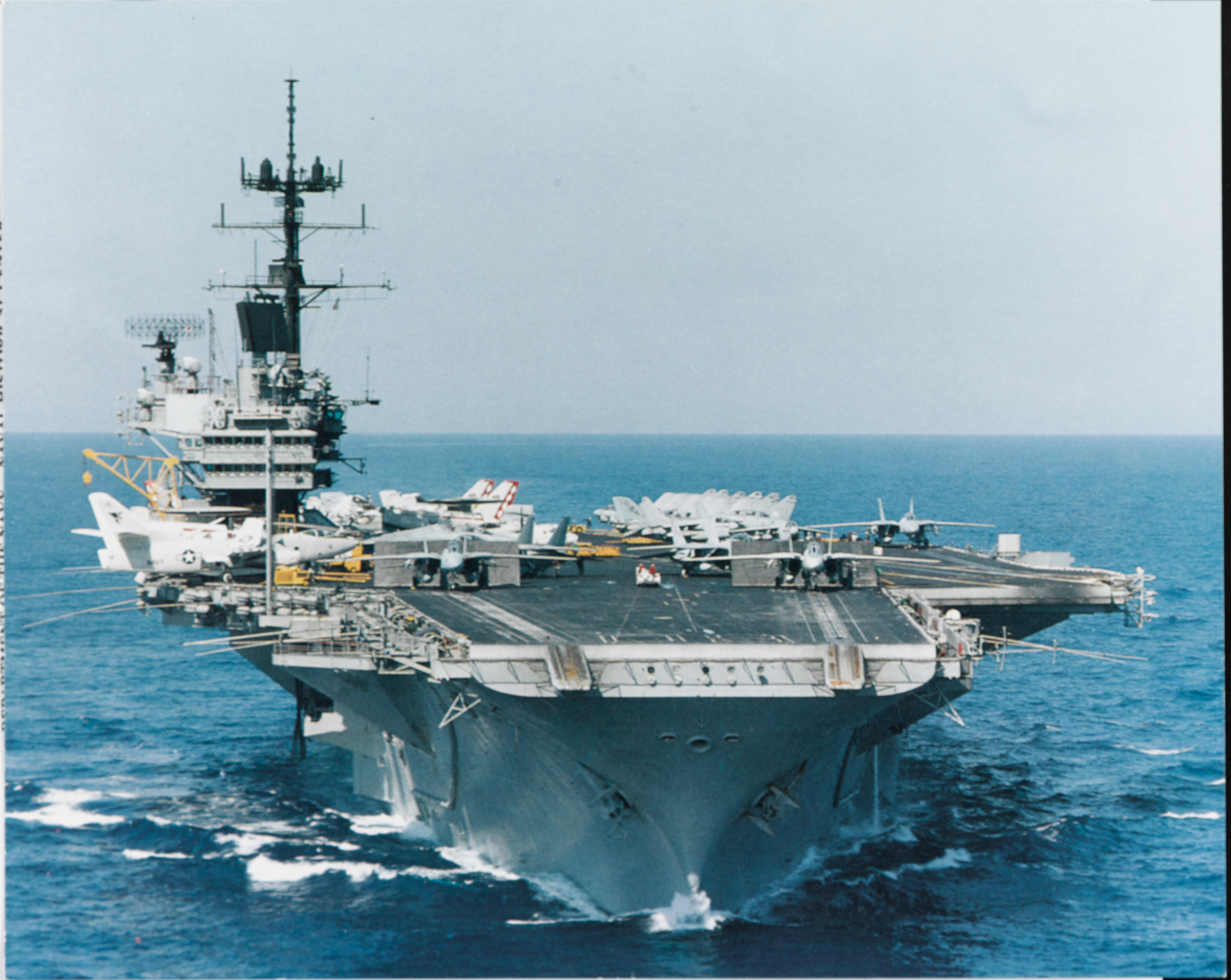 USS Saratoga (CV-60) underway with three F-14 fighters on her bow and waist catapults during operations in the Mediterranean Sea, 15 September 1985.